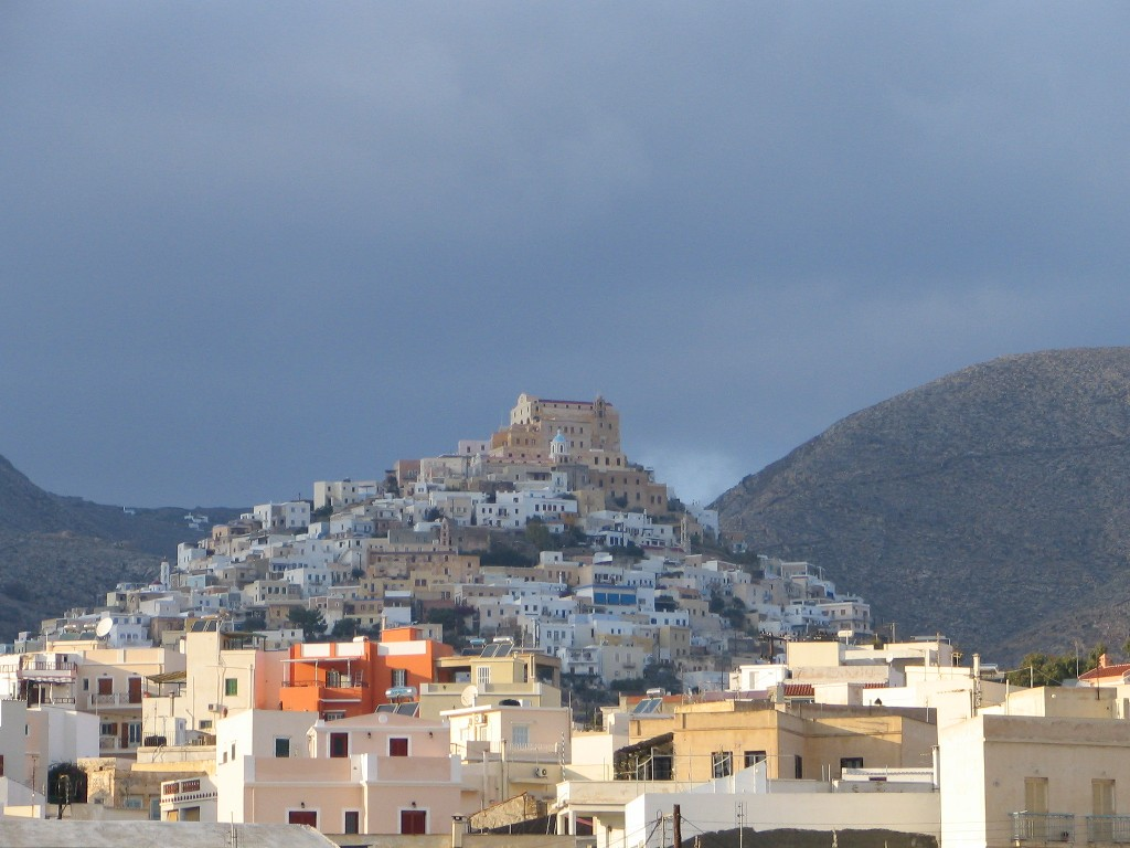 View of Ano Syros hill near Ermoupoli, island of Syros, Greece